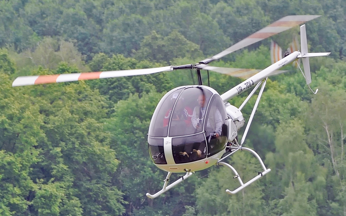 AK1-3 UR-TOLA